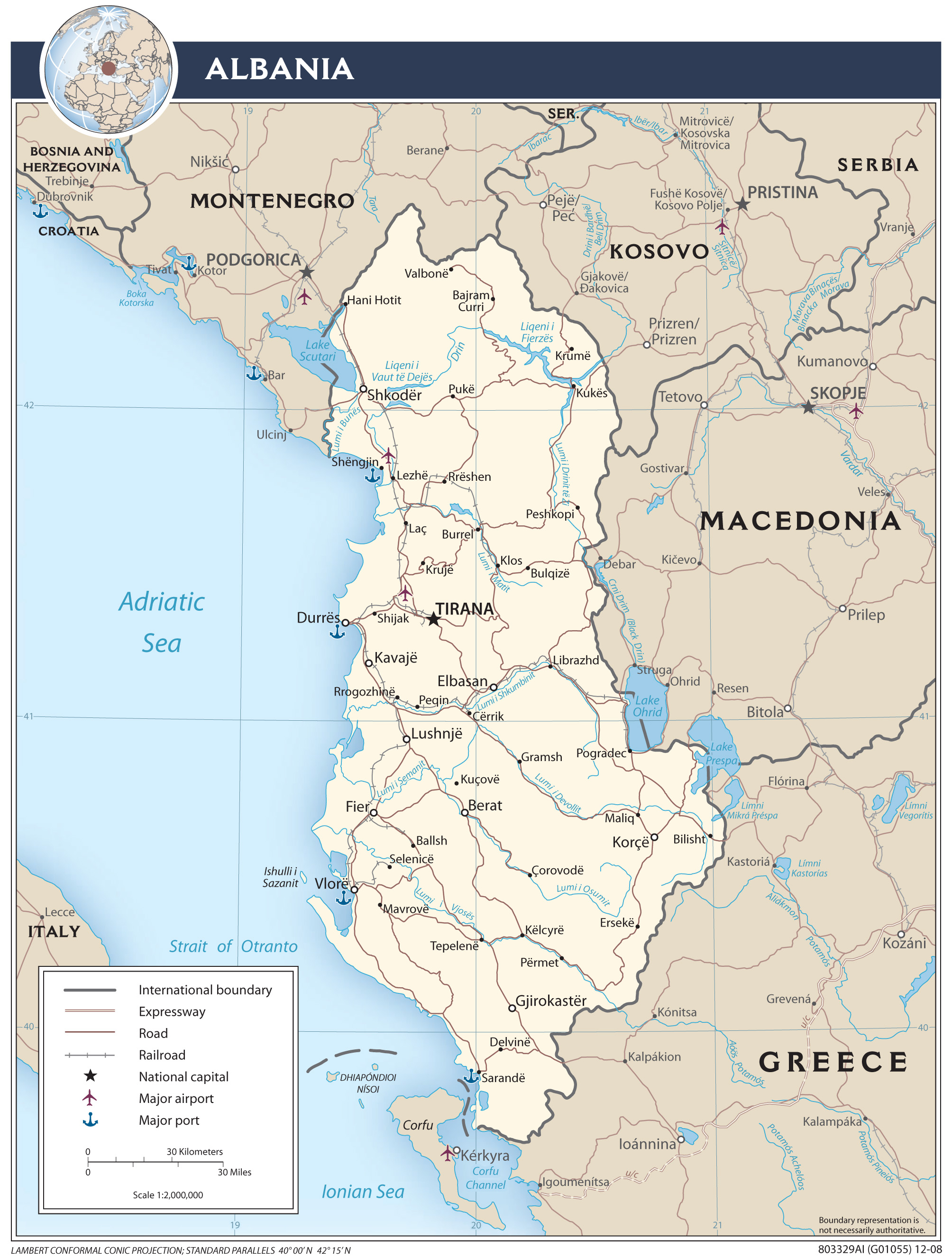 Transport system in Albania, 2009.